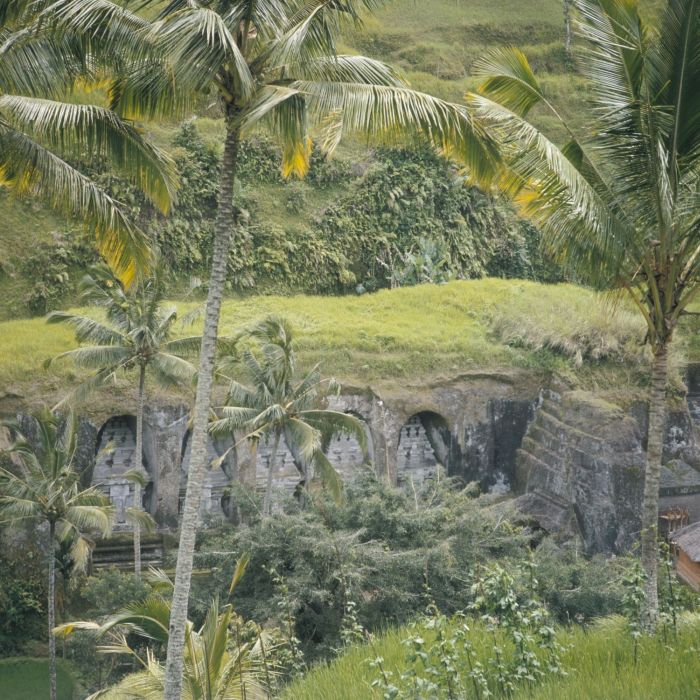 Gunung Kawi near Tampaksiring